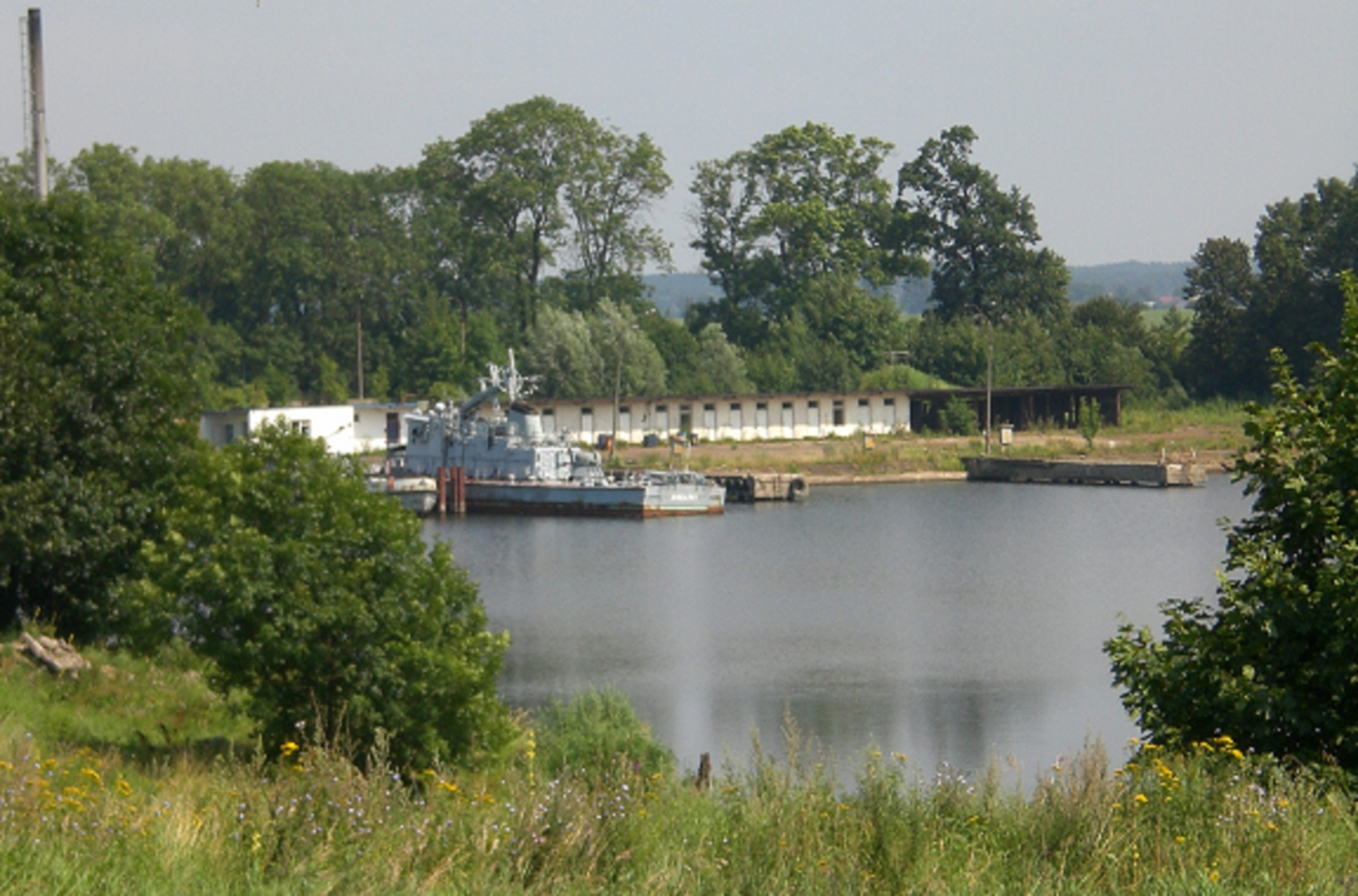 Port of Przegalina - decomisssioned ships of the Polish Navy